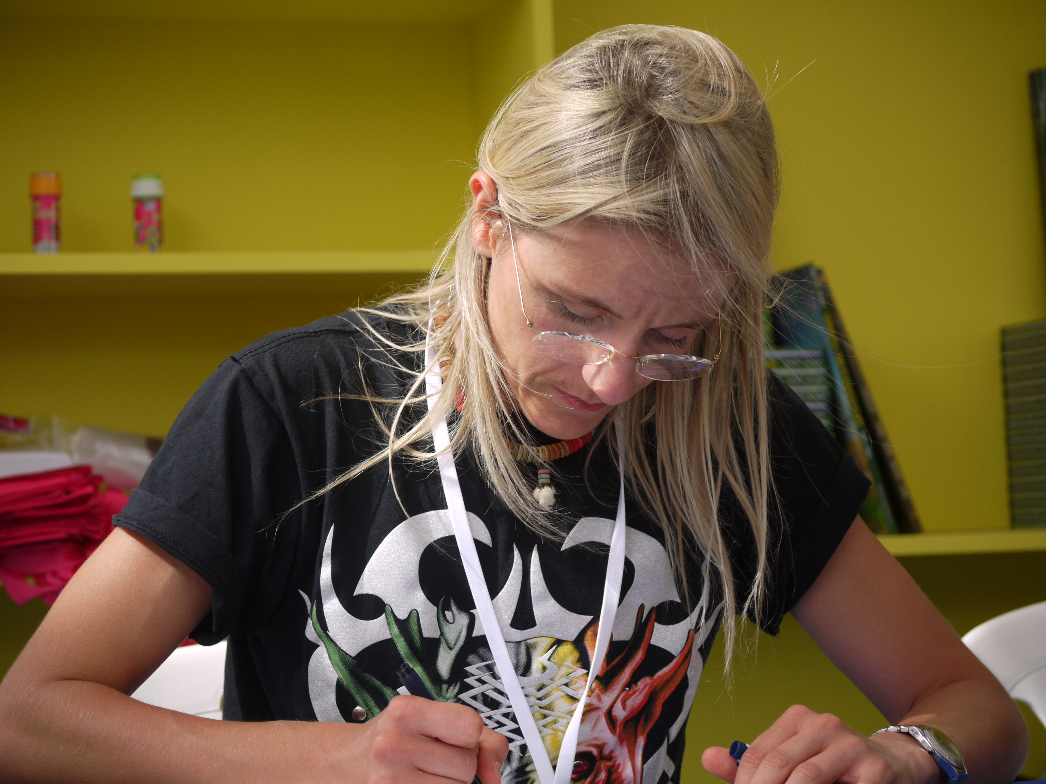 Photograph taken during the 2009 edition of the Comic Strip Festival named "O Tour de la Bulle" of Montpellier.